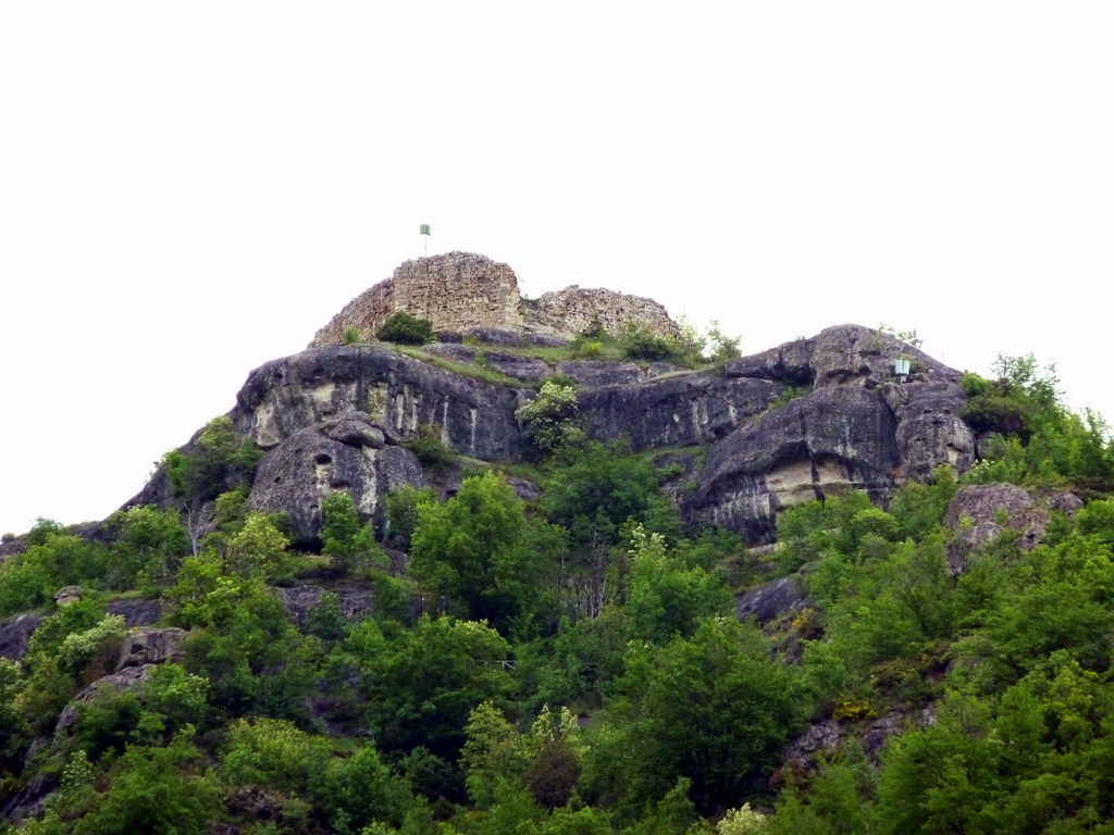 Montecalvo Fortess, San Martino, Acquasanta Terme, AP